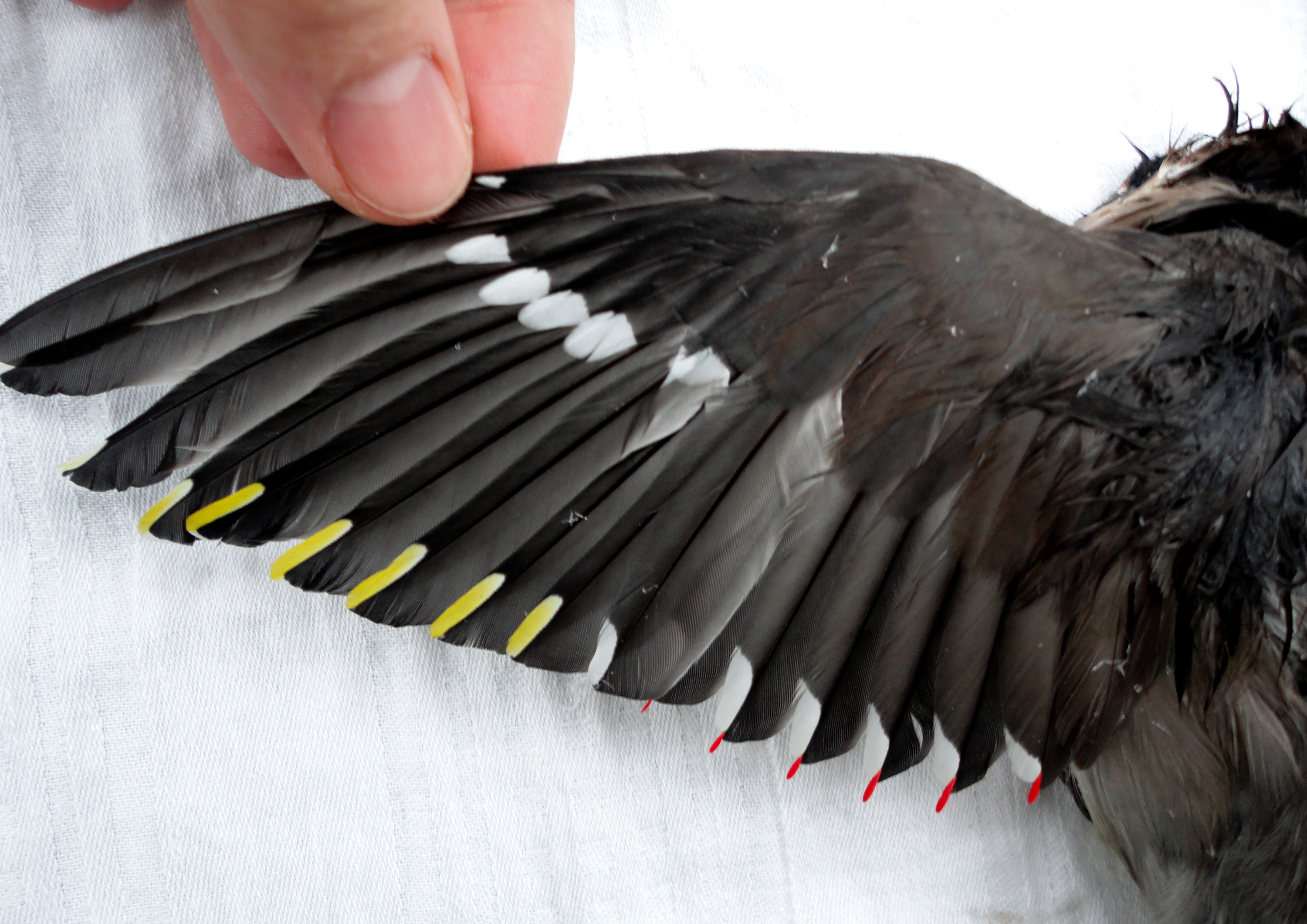 The spread wing of a (dead) Bohemian Waxwing